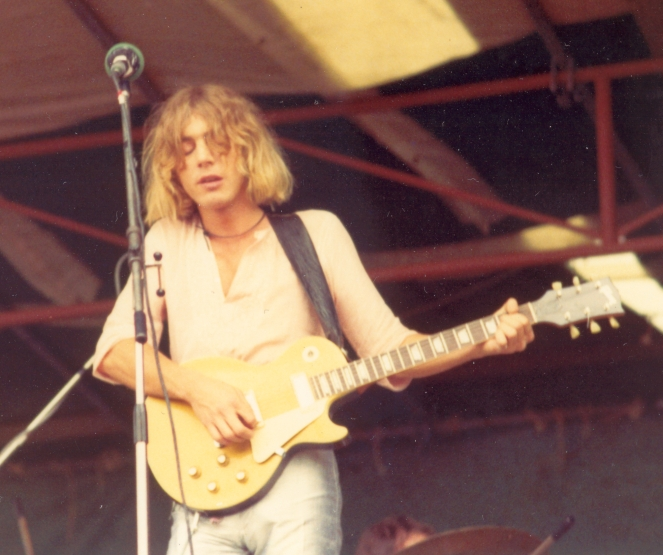 Kevin Ayers, Hyde Park free concert, 29th June 1974